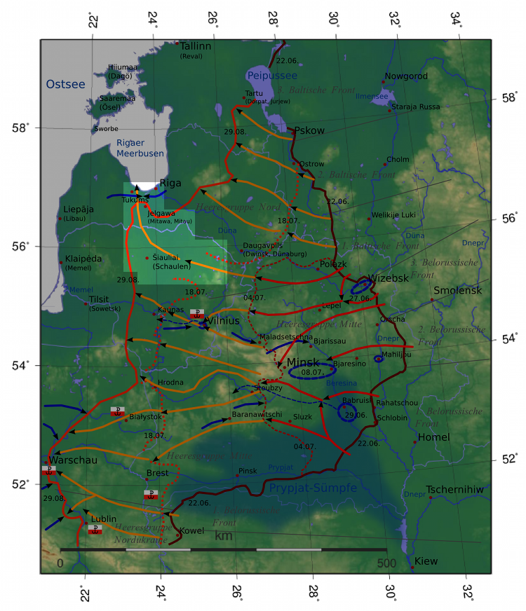 location of combat zone of Siauilai operation and Operation Doppelkopf during the soviet major offensive "Operation Bagration" (5. July 1944 - 29. August 1944)